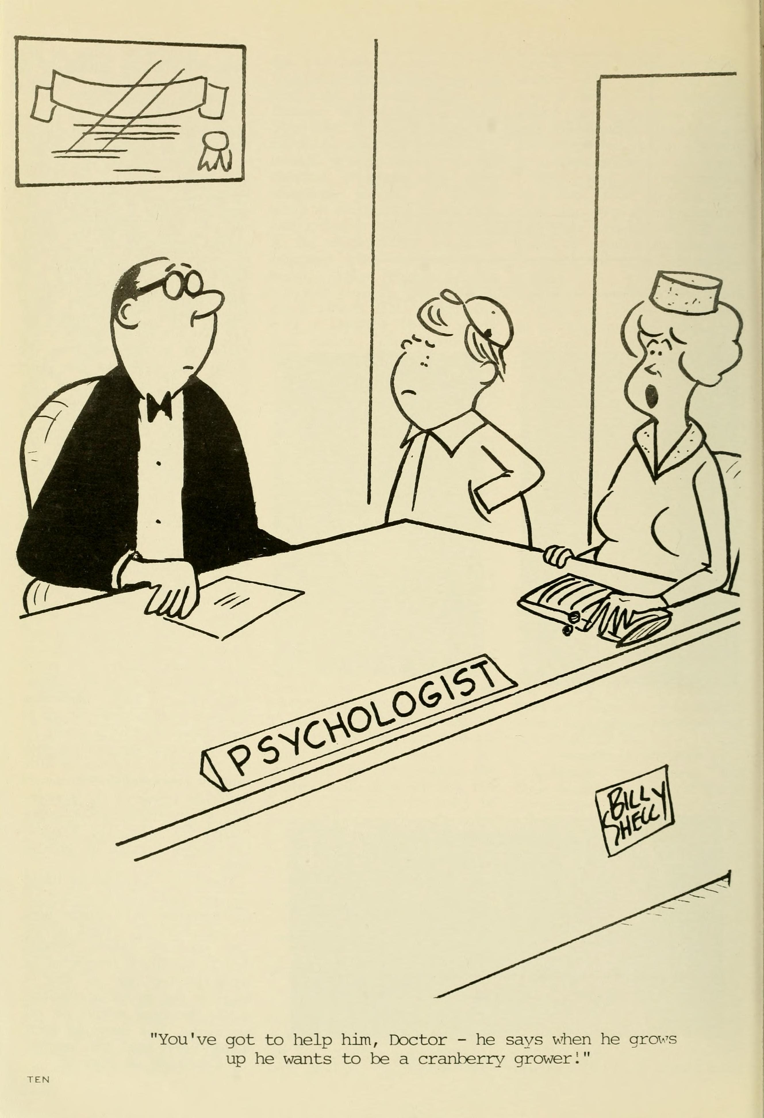 Title: Cranberries; : the national cranberry magazine Year: 1936 (1930s) Authors: Subjects: Cranberries Publisher: Portland, CT (etc. ) : Taylor Pub. Co. (etc. ) Text Appearing Before Image: ' Text Appearing After Image: "You've got to help him, Doctor - he says when he grows up he wants to be a cranberry grower i" TEN